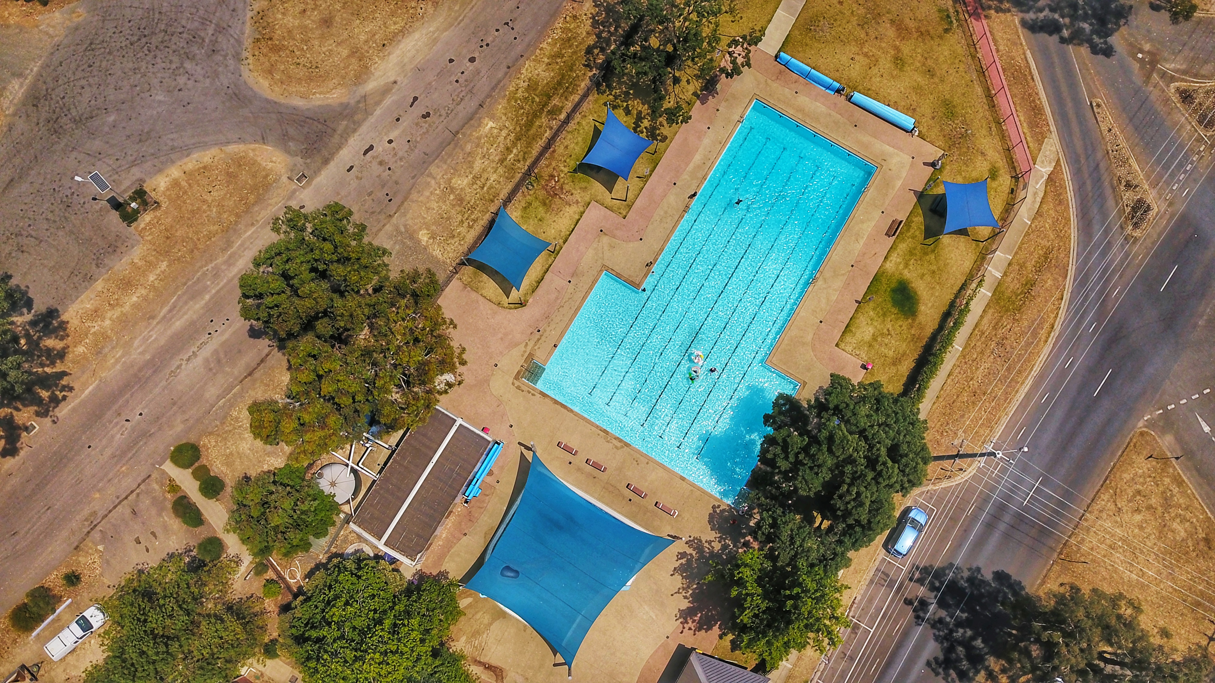 Yea Swimming Pool from the air. Jan 2020